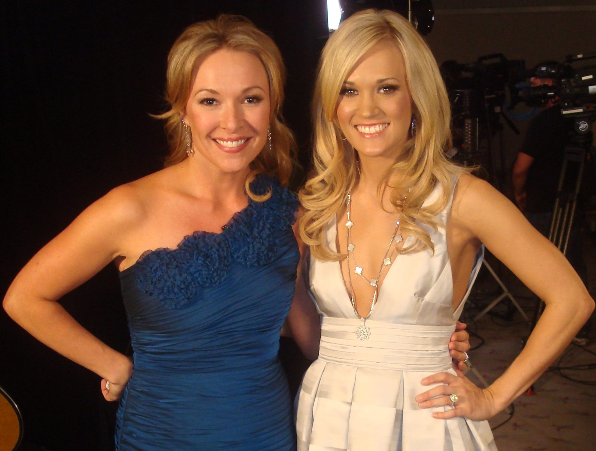 Katie Cook and Carrie Underwood at the 45th Annual Academy of Country Music Awards.